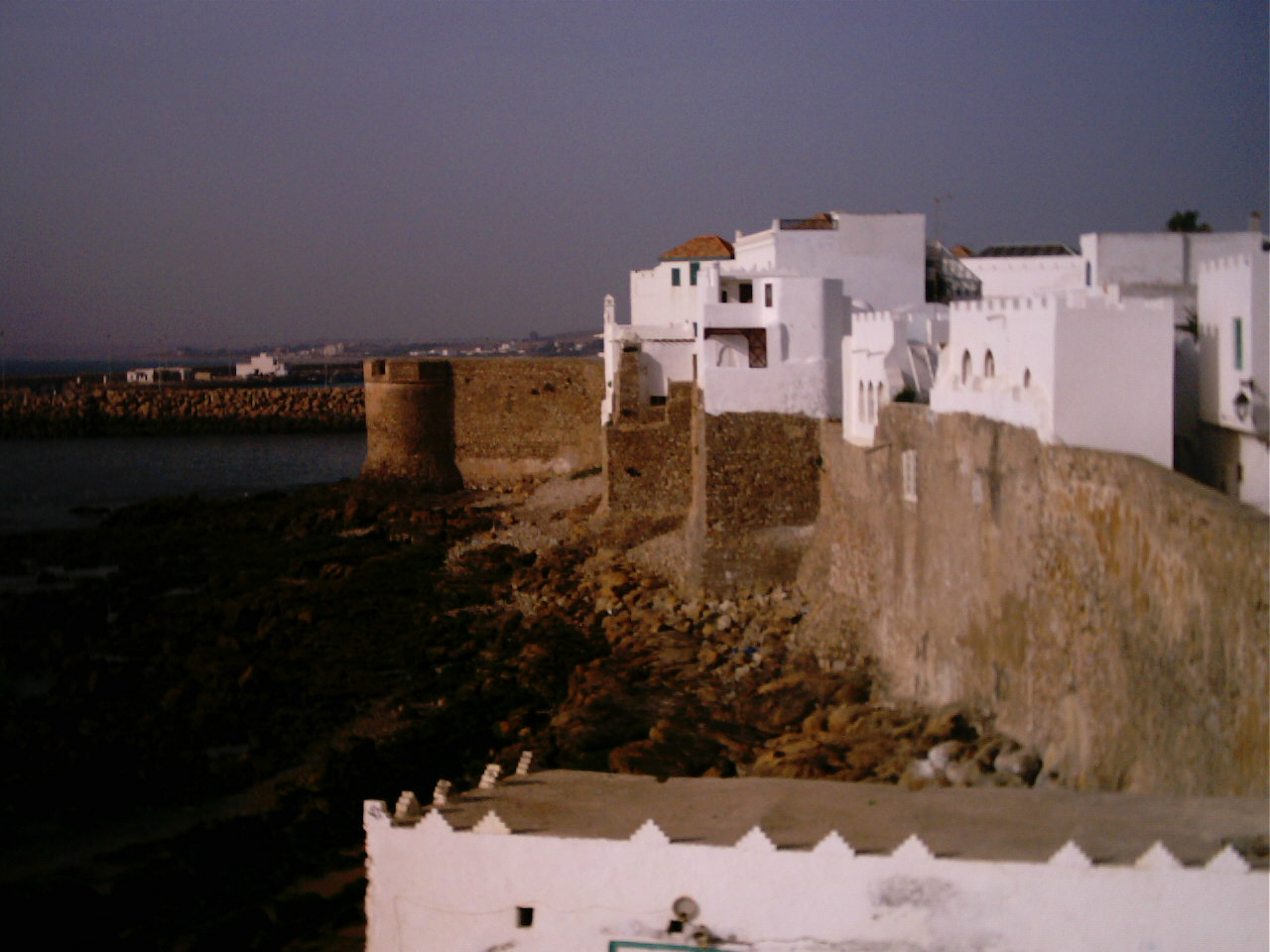 Portuguese fortress in Arzila, Morocco.